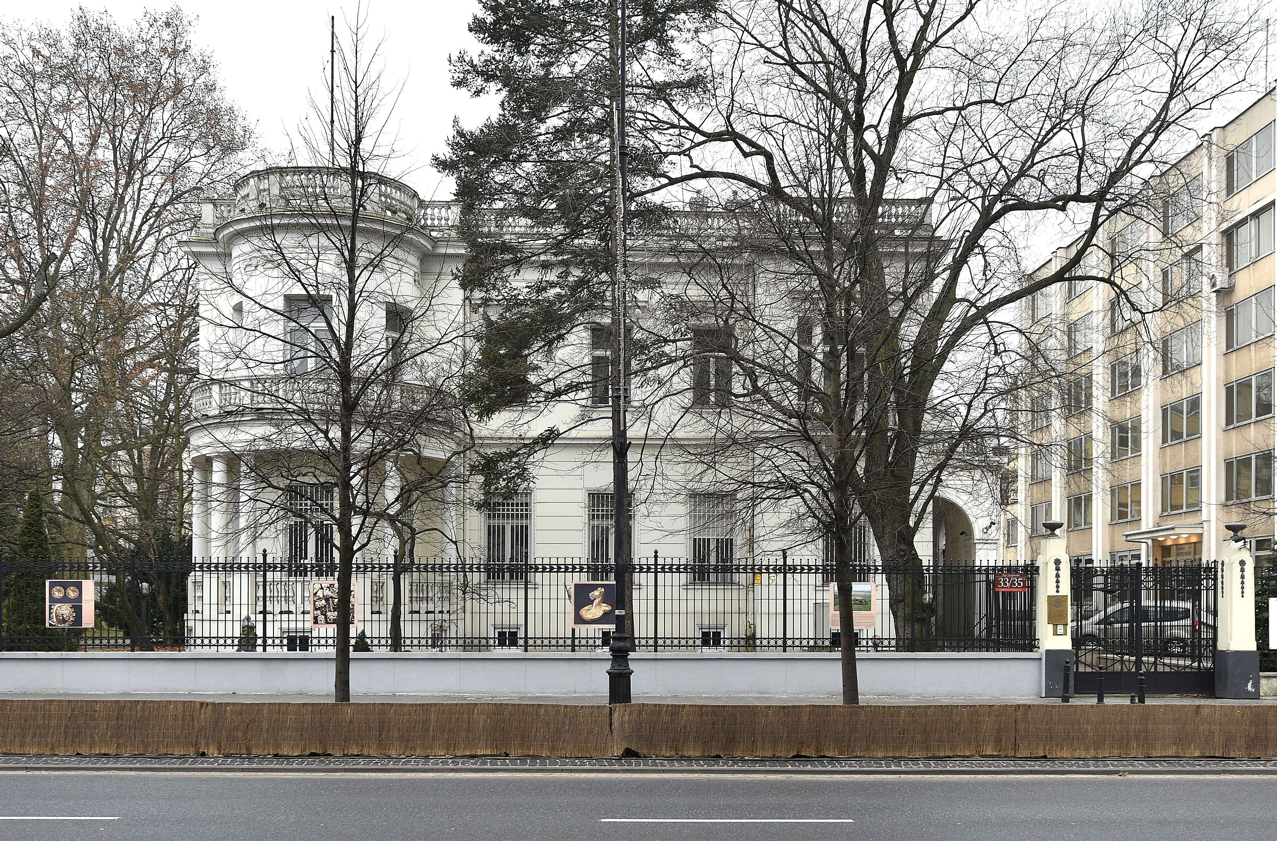 Dziewulski Palace at 33/35 Ujazdowskie Avenues in Warsaw